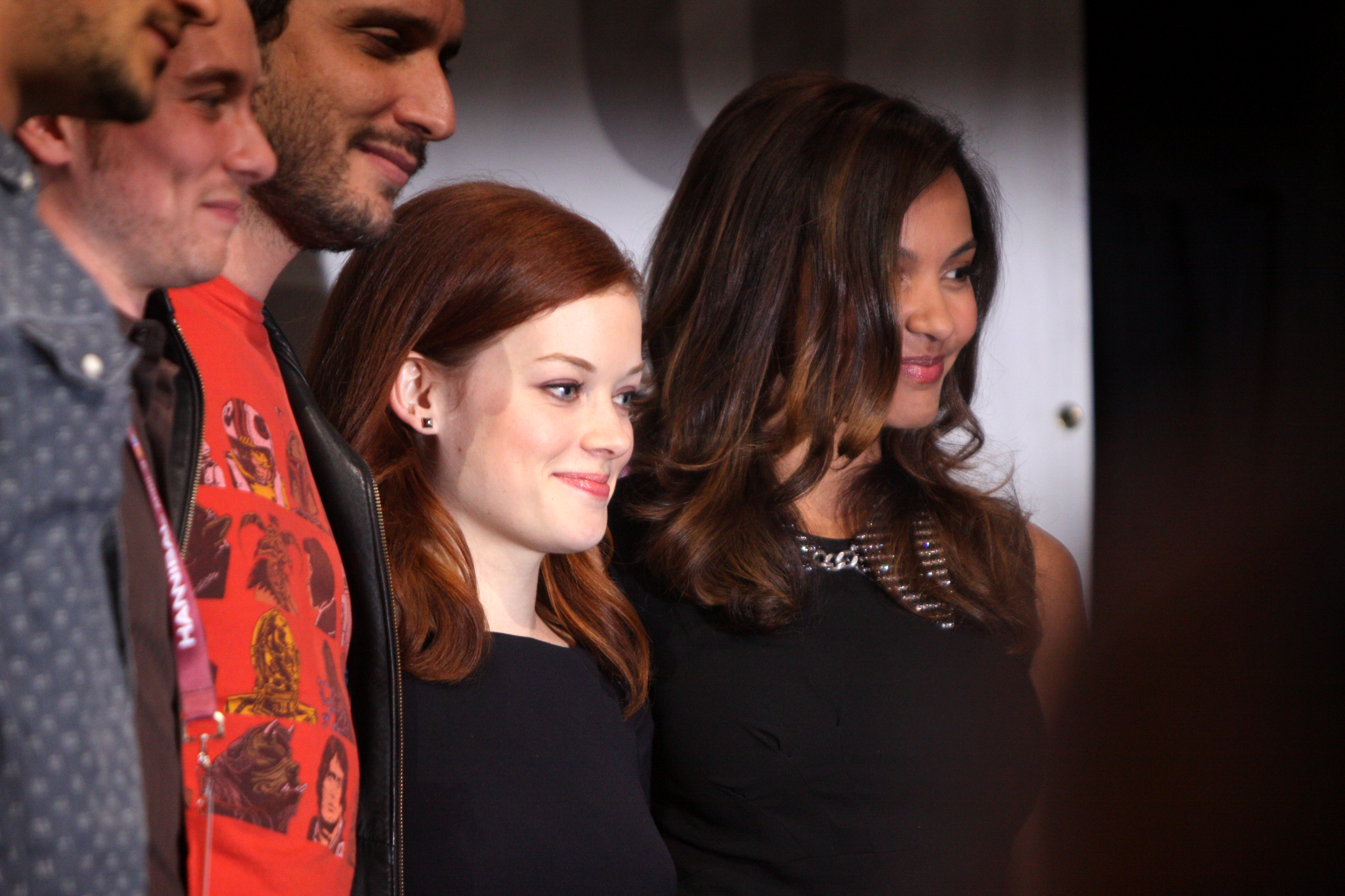 Jane Levy and Jessica Lucas speaking at the 2013 WonderCon at the Anaheim Convention Center in Anaheim, California.